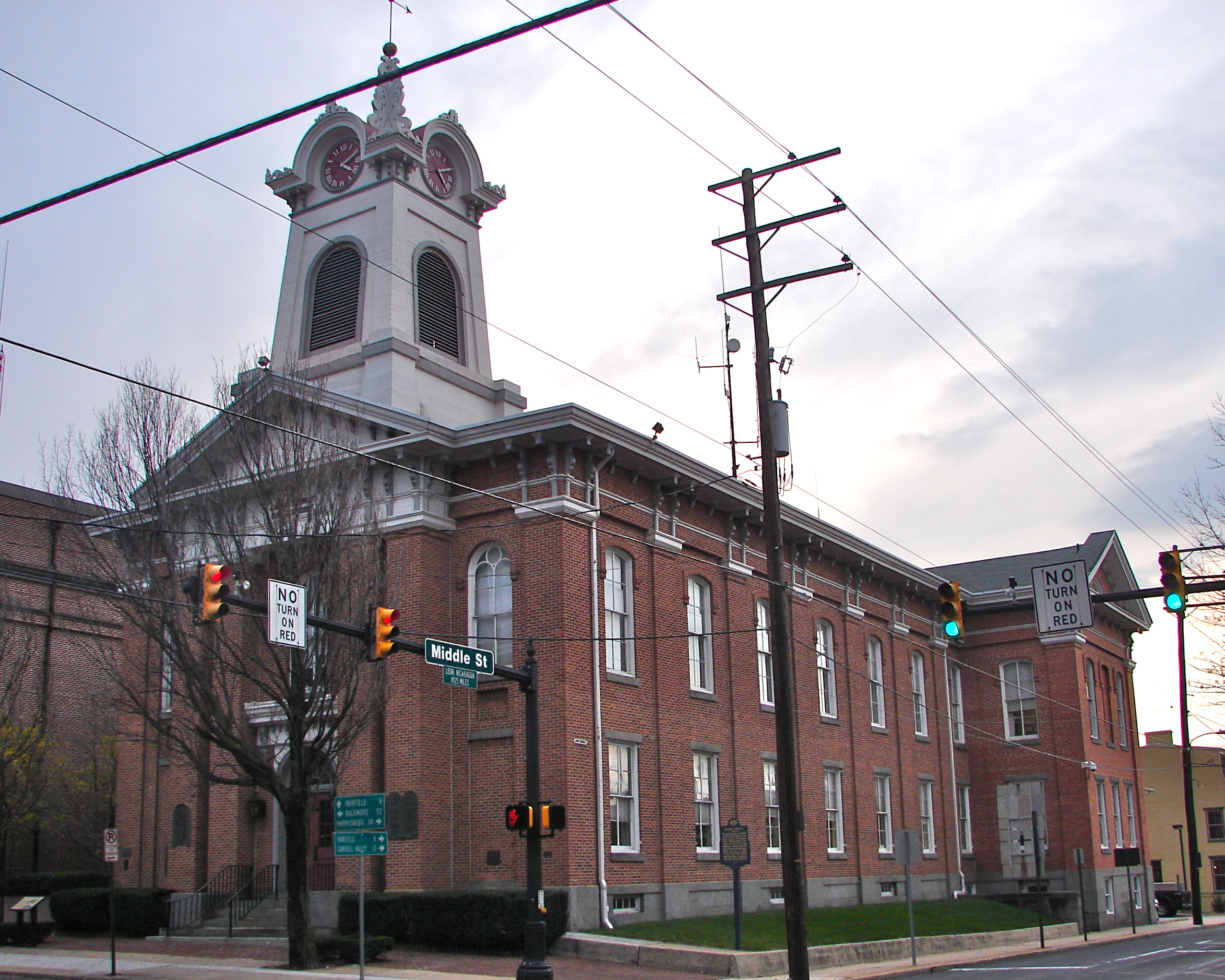 Adams County Courthous on the NRHP since October 1, 1974. At Baltimore and West Middle Streets in Gettysburg, Pennsylvania. Built 1858